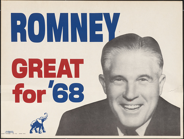 Campaign poster used during George W. Romney's bid for the Republican U.S. presidential nomination in 1968. Design features candidate's headshot over a campaign slogan reading "ROMNEY GREAT for '68." Legend in very small print at lower left, under minuscule logo (presumably printer's) reads: " L HALL Ch. ROMNEY for PRESIDENT COMMITTEE WASH D C."